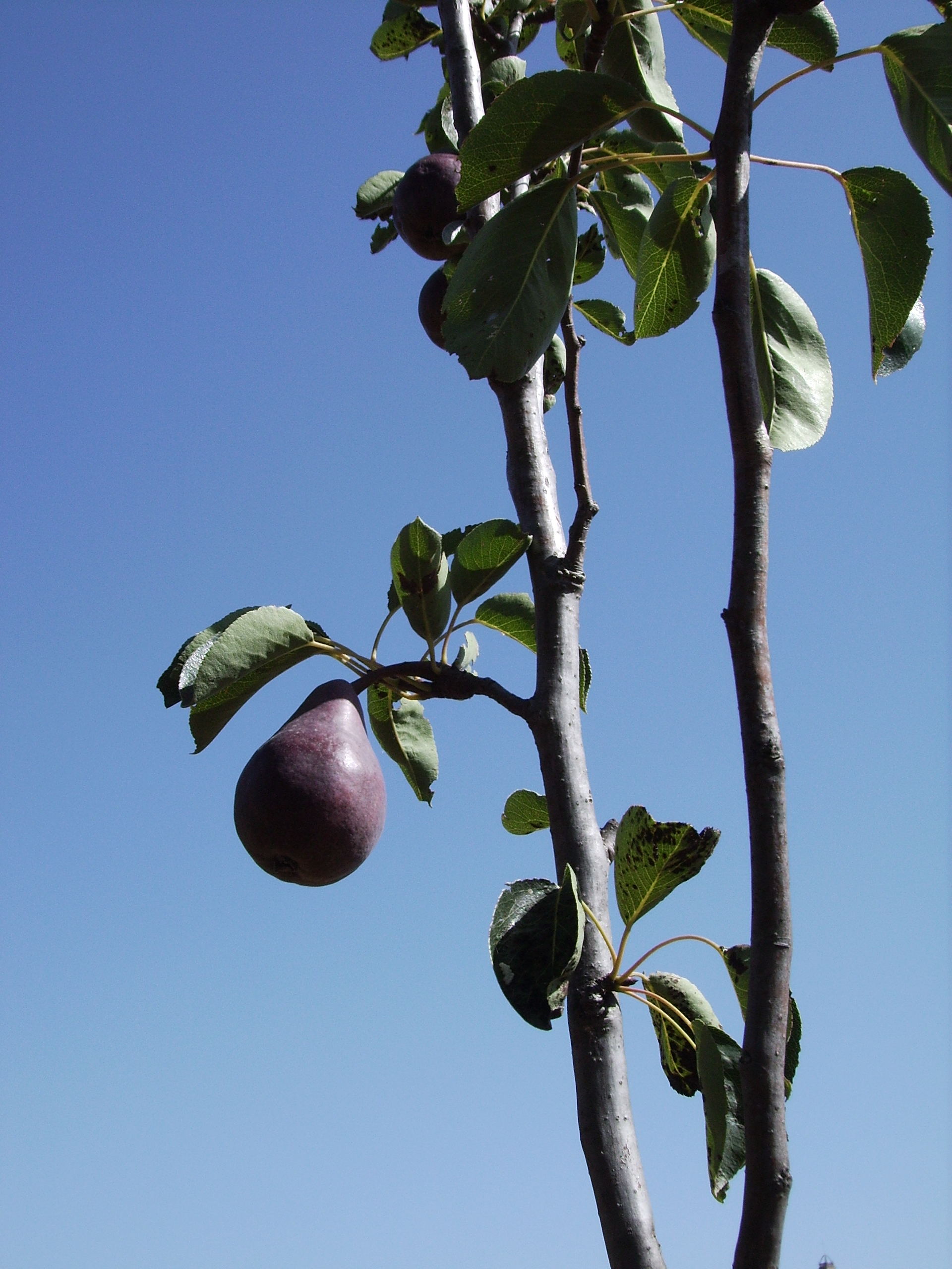 Pyrus communis cvar. Max red Barlett Inmature pear (July) growing in Serra de Castelltallat. My own work, july 21 2006